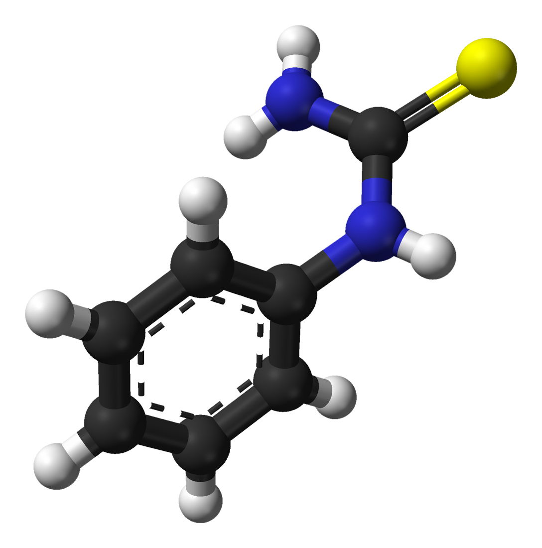 Ball-and-stick model of the phenylthiourea molecule. X-ray crystallographic data from Y.-H. Shen and D.-J. Xu (July 2004). "Phenylthiourea". Acta Cryst. E60 (7): o1193-o1194. Model constructed in CrystalMaker 8.1. Image generated in Accelrys DS Visualizer.